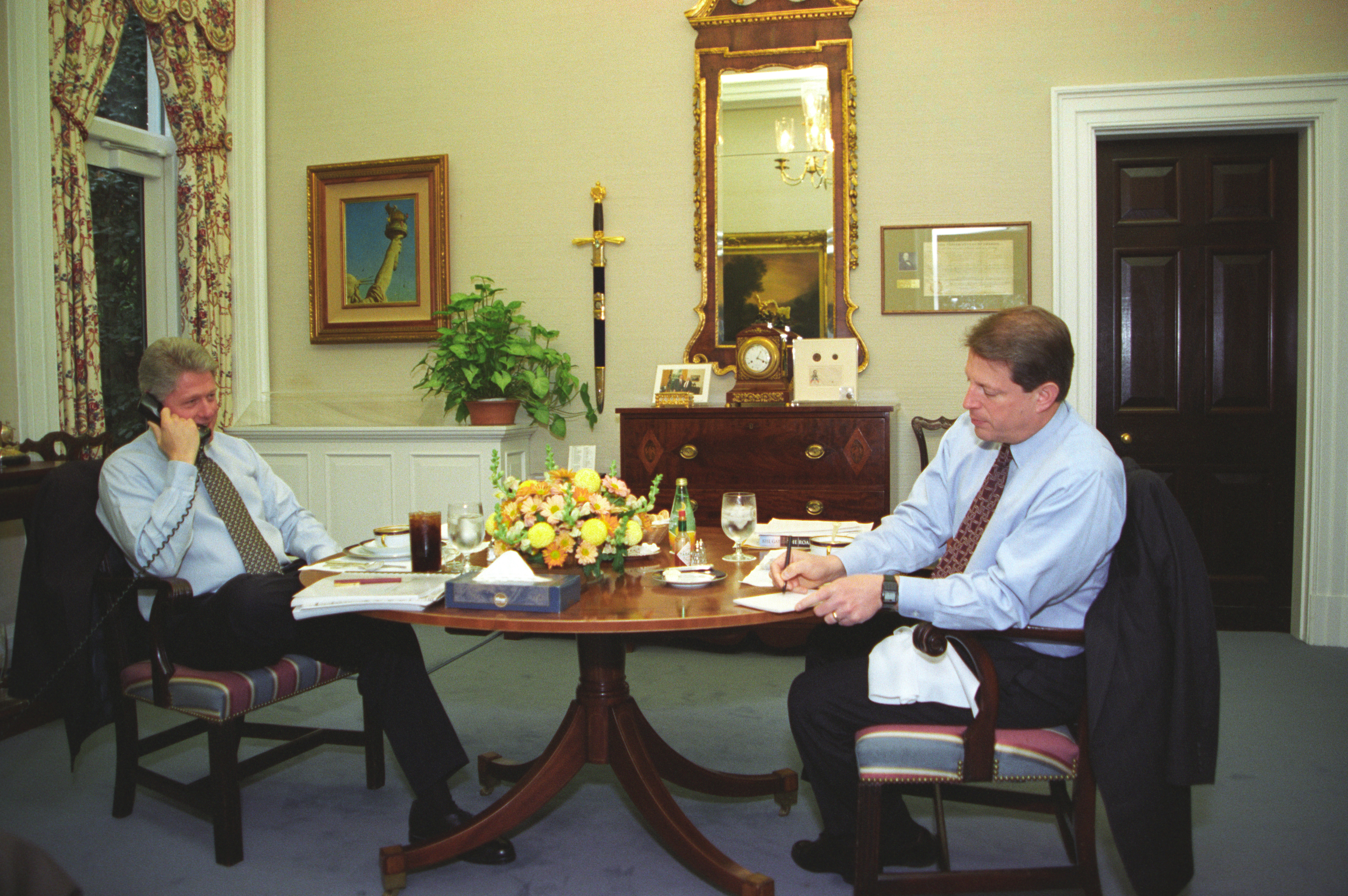 November 21, 1995: President Clinton and Vice President Gore take a phone call in the Oval Office Dining Room from Secretary of State Warren Christopher regarding the Bosnian Peace Talks in Dayton, Ohio. (Credit: William J. Clinton Presidential Library) Hosted by the Clinton Library and the Clinton Foundation, the document release was spearheaded by CIA’s Historical Review Program (HRP), which identifies, collects and produces historically relevant collections of declassified materials. The Bosnia collection—the youngest ever released in HRP’s 20-year existence—is available online at A video recording of the symposium is available at